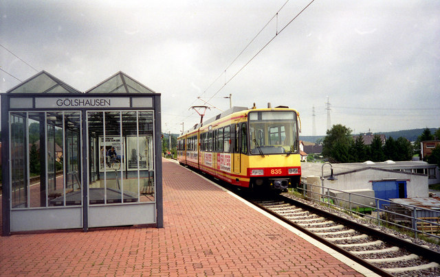 Electric light rail at Golshausen